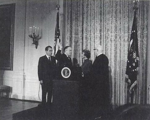 George Romney being sworn in as HUD secretary, joined by President Nixon and Mrs. Romney. Source: Lamb, Charles (2005) "George Romney's Blueprint for Suburban Integration" in Housing Segregation in Suburban America since 1960: Presidential and Judicial Politics, New York, United States: Cambridge University Press, pp. p. 58 Retrieved on 18 July 2009. ISBN: 0-521-83944-0.